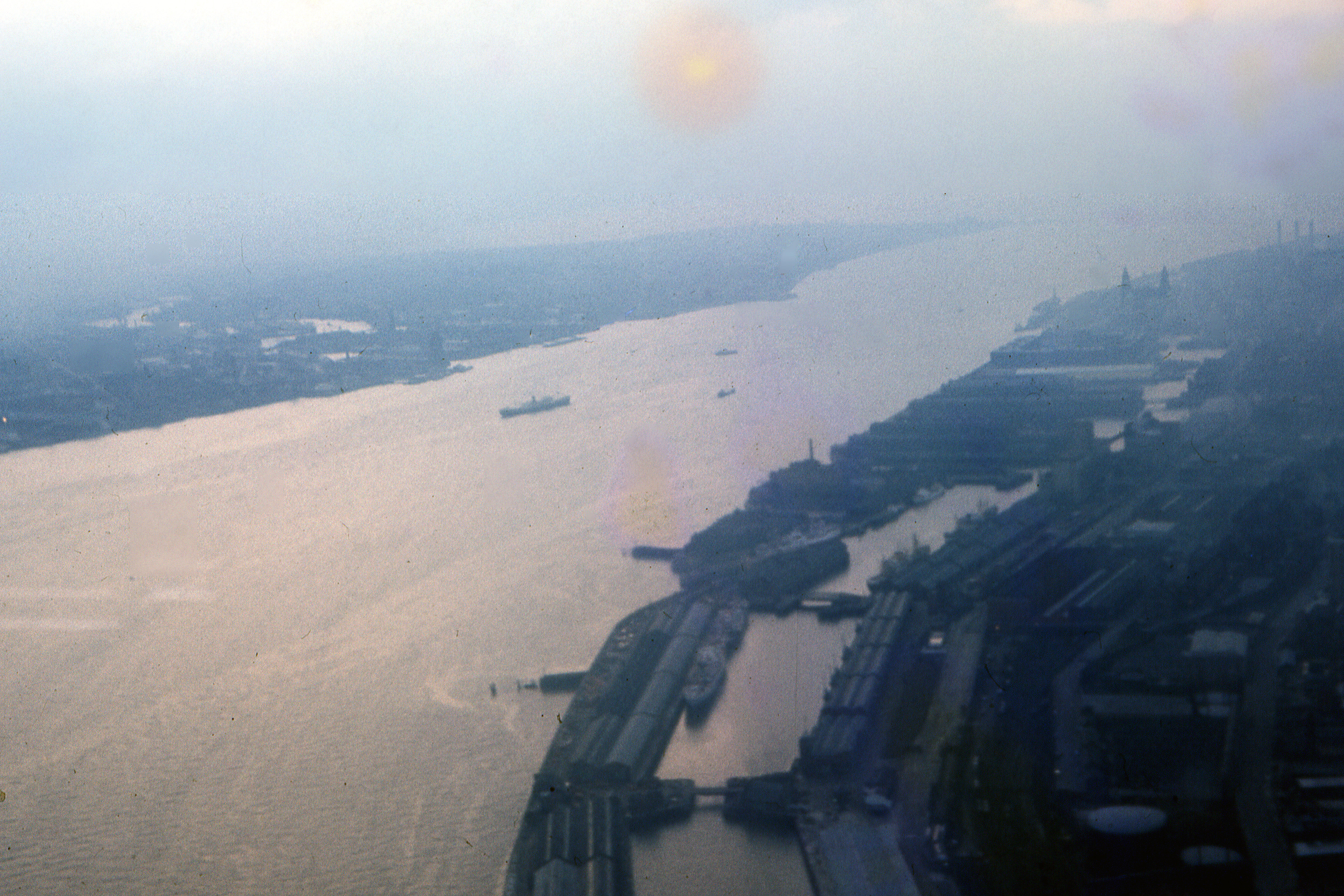 En route Liverpool to London on a Starways Viscount